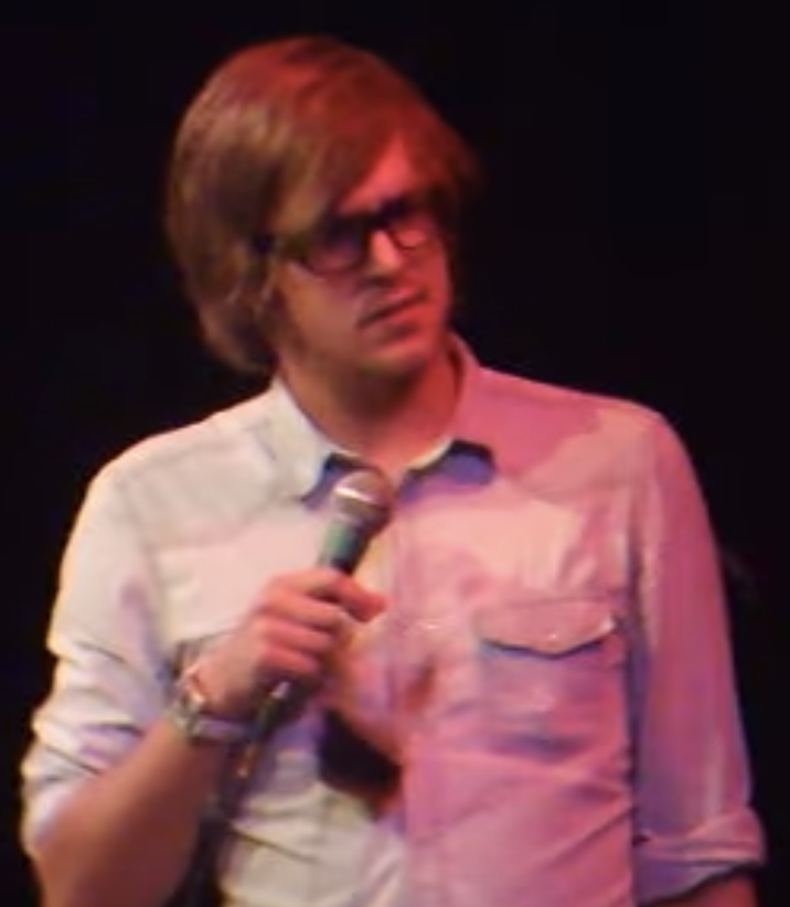 Comedien Iain Stirling performing at a Southbank Udderbelly at Comedy Club 4 Kids, 2011